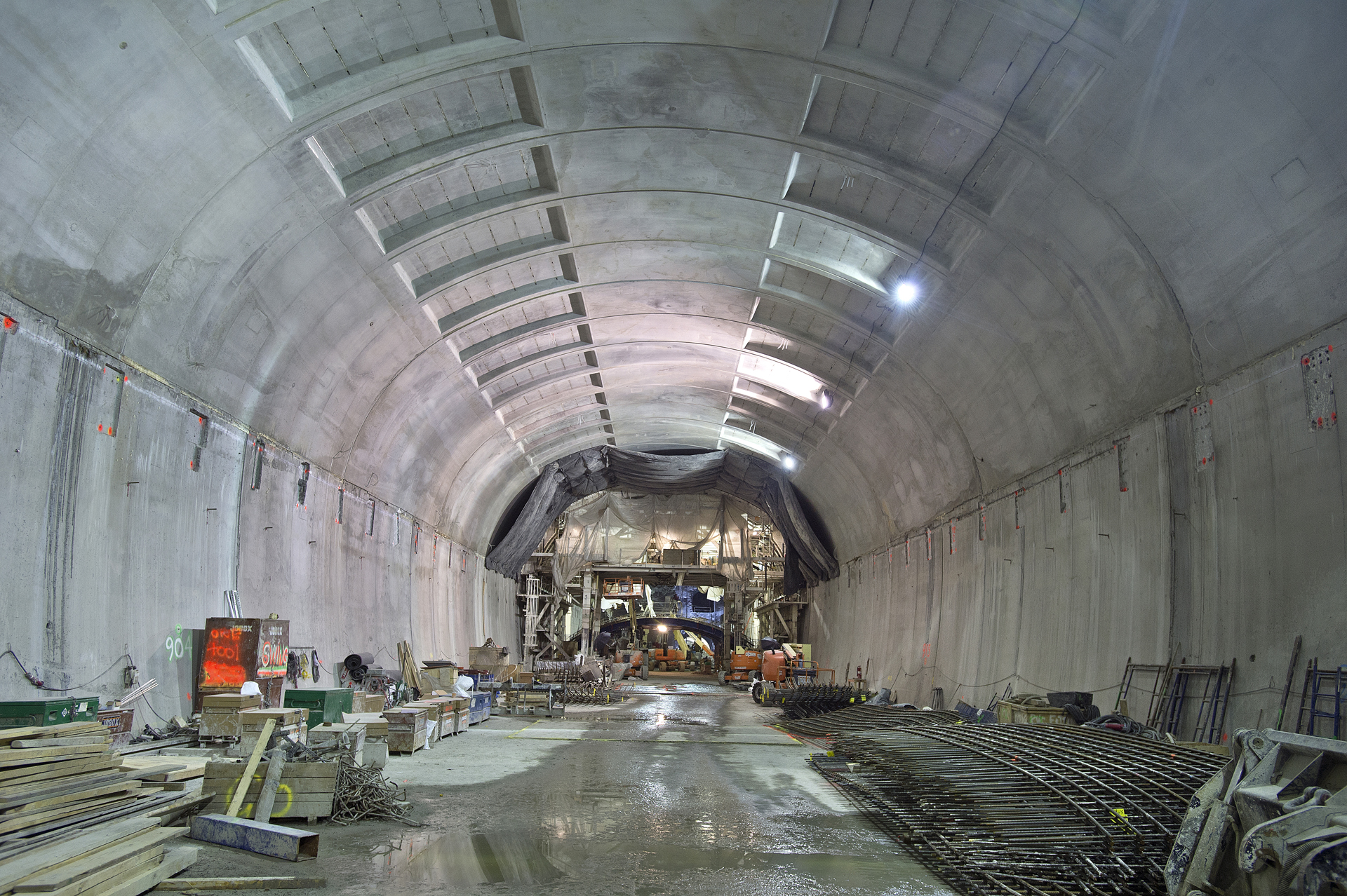 Progress at Second Avenue Subway's 86th St.caverns as of March 15, 2014. Photo: Metropolitan Transportation Authority / Patrick Cashin